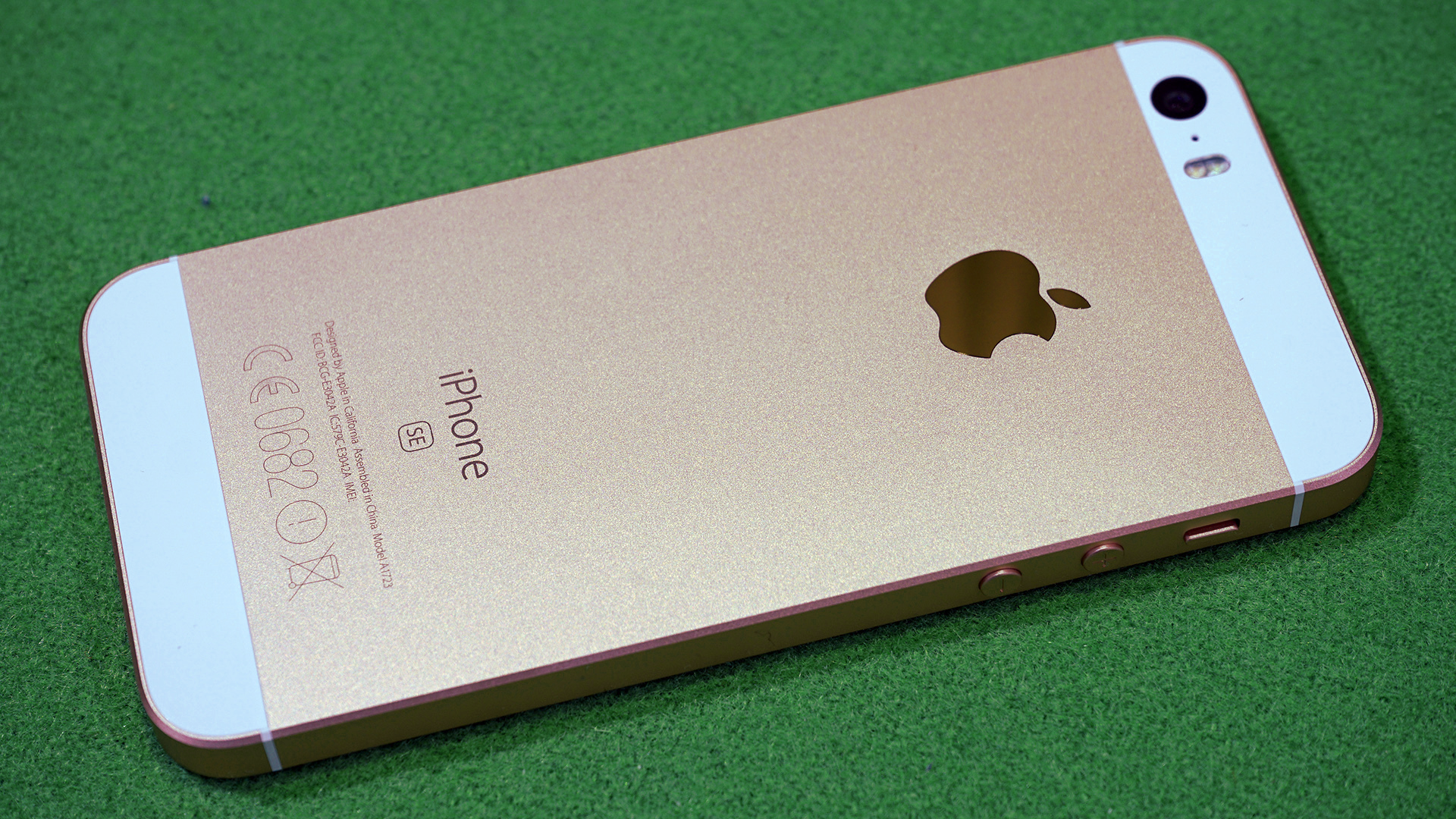 Photo of the iPhone SE in rose gold (rear side).